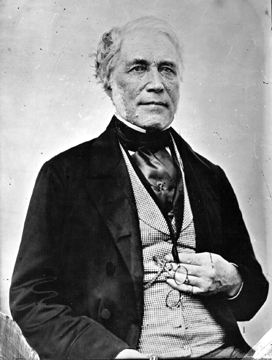 Peter McGill Source: McGill University Archives Date: 1866